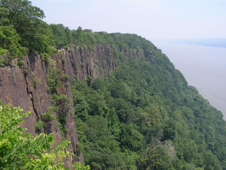 A picture from atop the Palisades Sill looking east across the Hudson River. I took this picture on June 18, 2006.